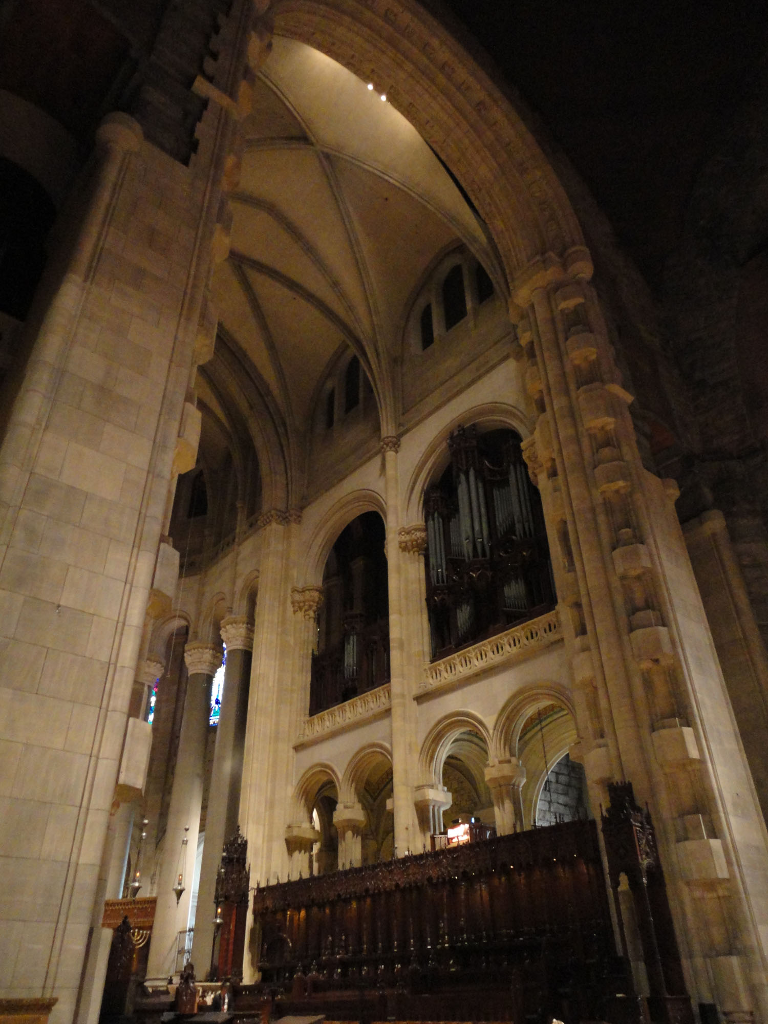 An inside look of St John The Divine.